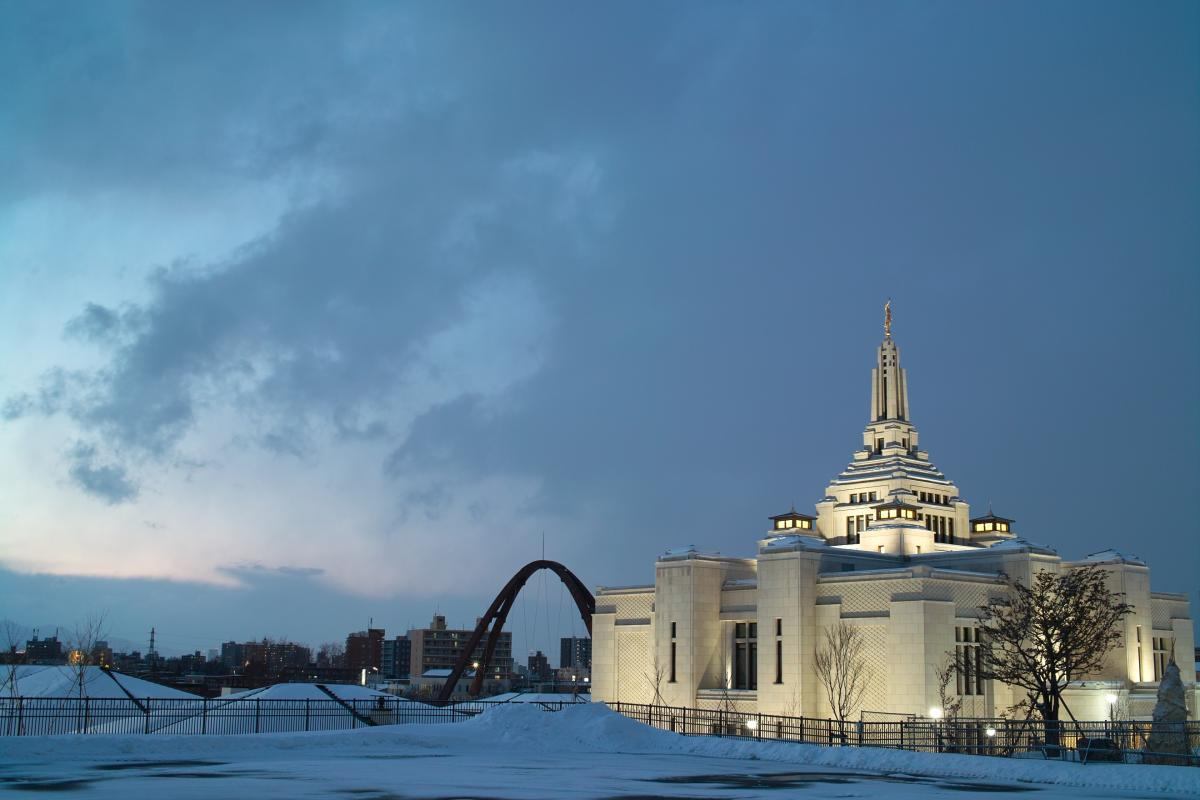 Picture of the Sapporo Temple of The Church of Jesus Christ of Latter-day Saints.